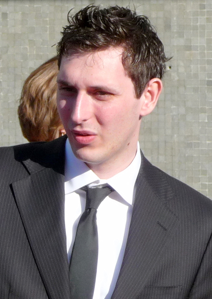 Actor from The Inbetweeners: Blake Harrison at the at the BAFTA's 2009.